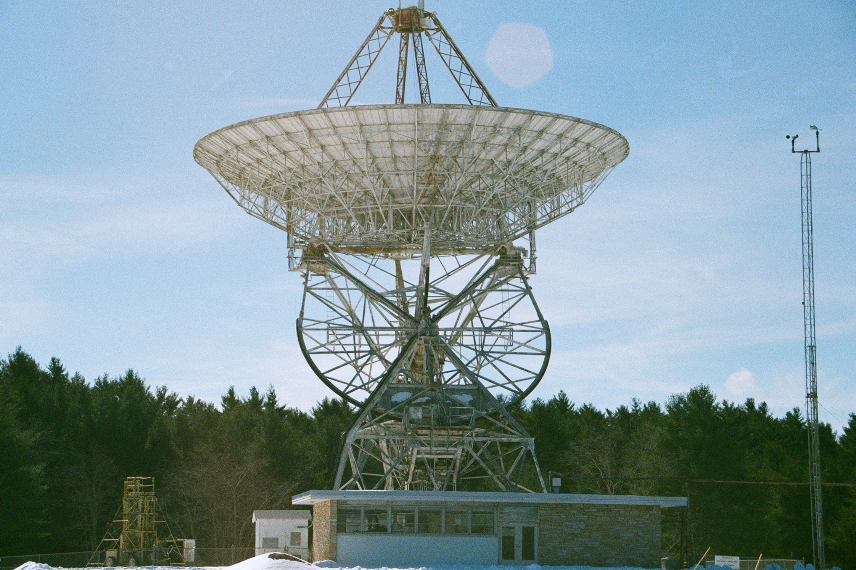 Howard E. Tatel Radio Telescope (85-1) at Green Bank site of the National Radio Astronomy Observatory (NRAO)